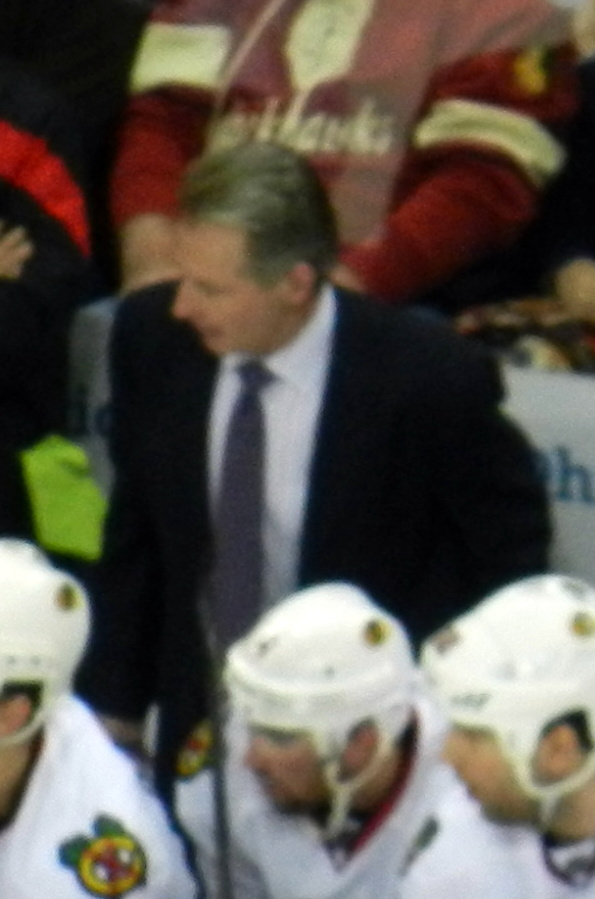 Mike Kitchen assistant coach of the Chicago Blackhawks during a game vs. the Columbus Blue Jackets